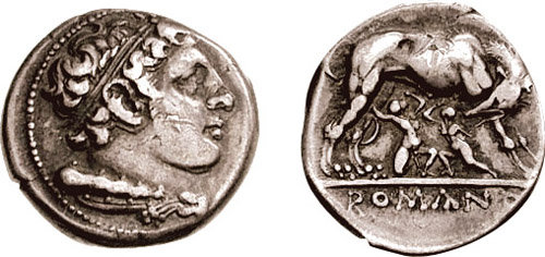 Rome Anonymous. 269-266 BC. AR Didrachm (6.85 g, 9h). Diademed head of Hercules right, club and lion's skin over shoulder She-wolf standing right, head left, suckling Romulus and Remus; ROMANO in exergue. VF, very minor mark on either side beneath lovely deep cabinet toning. From the Claude Collection.